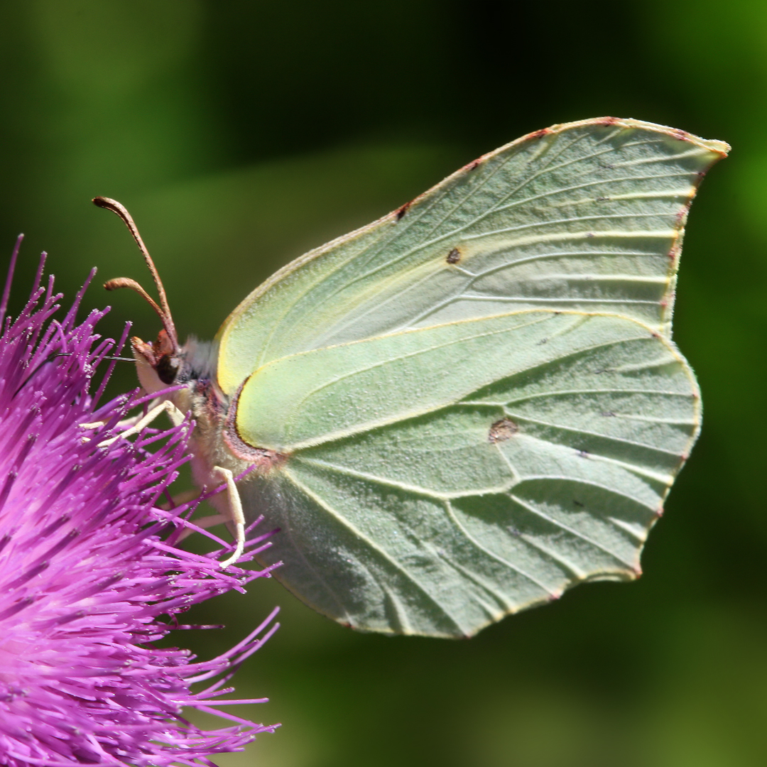 Description: The Brimstone Gonepteryx rhamni is a butterfly of the Pieridae family.